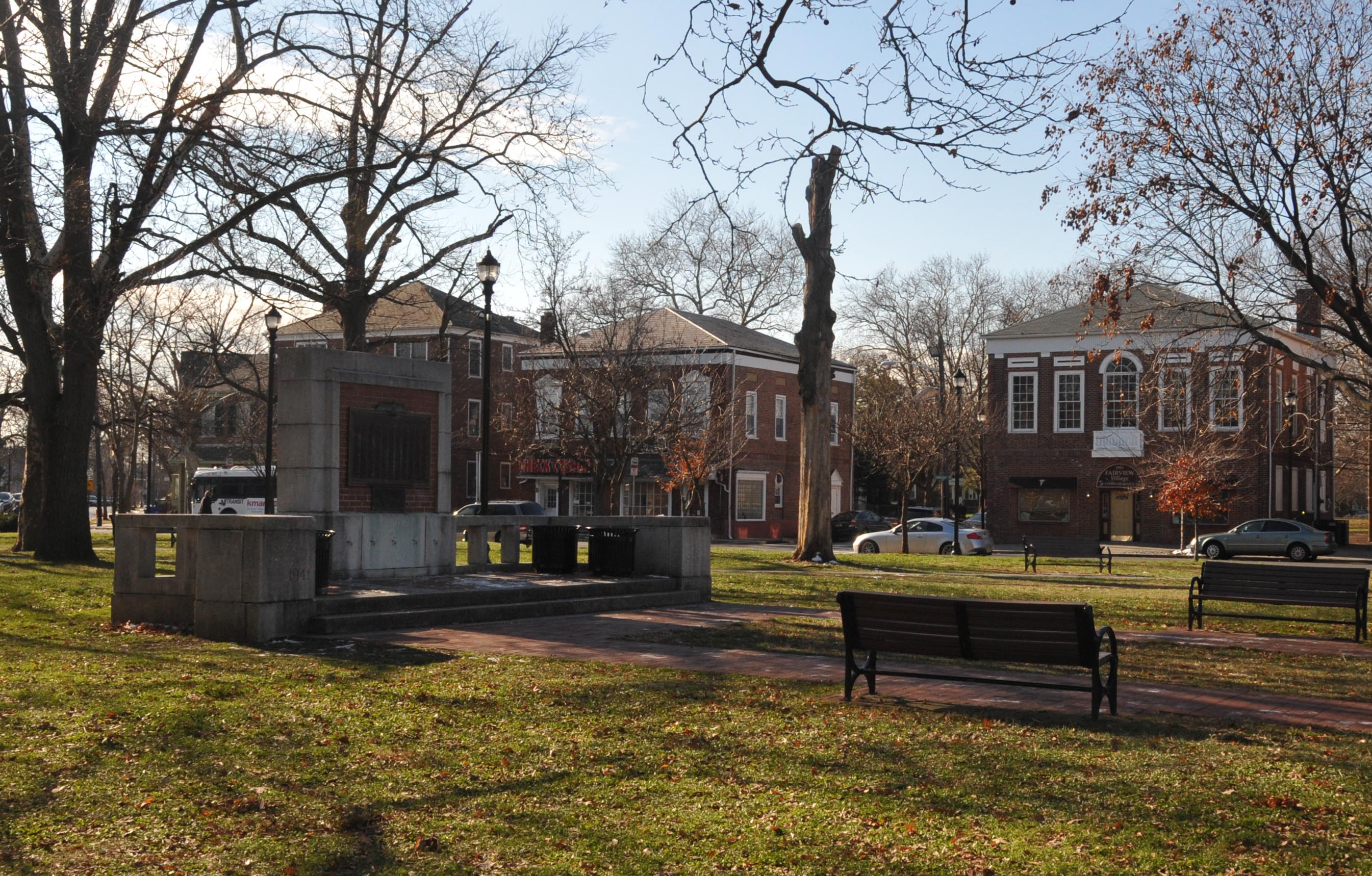 THE DISTRICT WAS FORMED IN 1918 AND AN UPSCALE RESIDENTIAL DISTRICT FOR MAINLY MANAGING PERSONNEL AT THE NEARBY SHIPYARDS. THE CENTER IS YORKSHIP SQUARE AND ALL THE ROADS RADIATE FROM THIS SITE. IN THE CENTER IS A MEMORIAL TO SERVICEMENT AND THE BUILDINGS RANGED AROUND THE SQUARE HAVE A PLEASING SOMEWHAT COLONIAL APPEARANCE